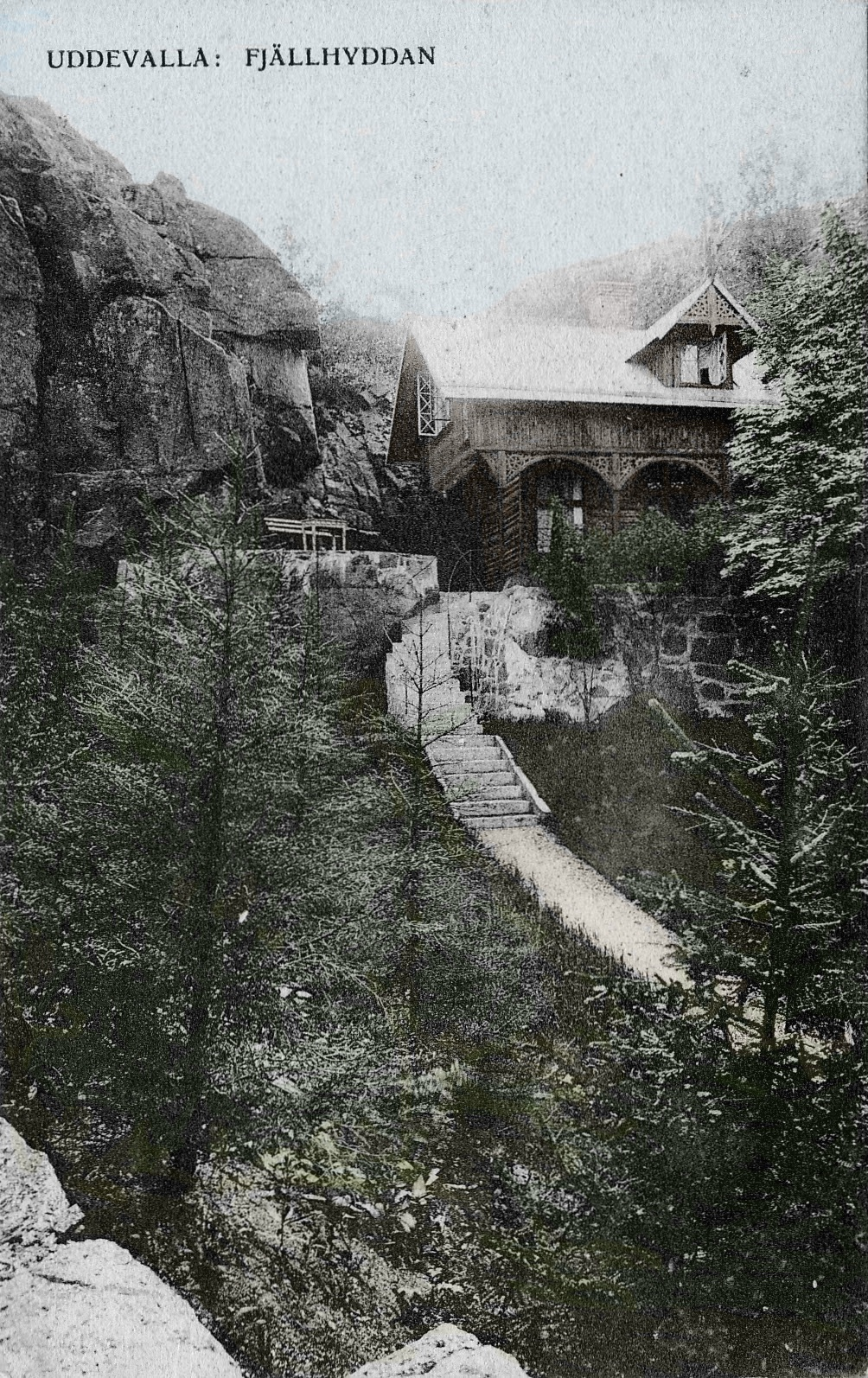 Early 1900s postcard, depicting Fjällhyddan, a house built by the local publicist and politician Ture Malmgren in Uddevalla, during the late 19th century. Today a ruin. Unknown photographer.